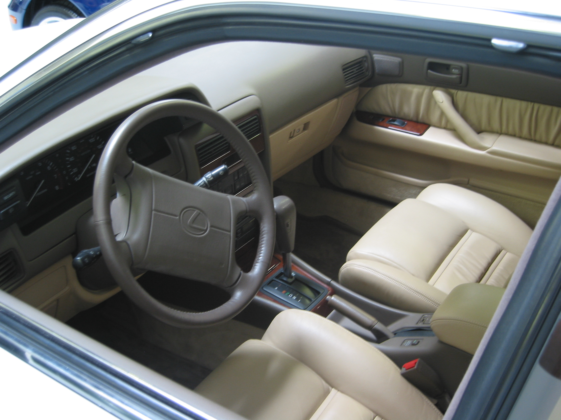 Lexus ES250 Interior. This is from Toyota's own car located in their Museum in Southern California.